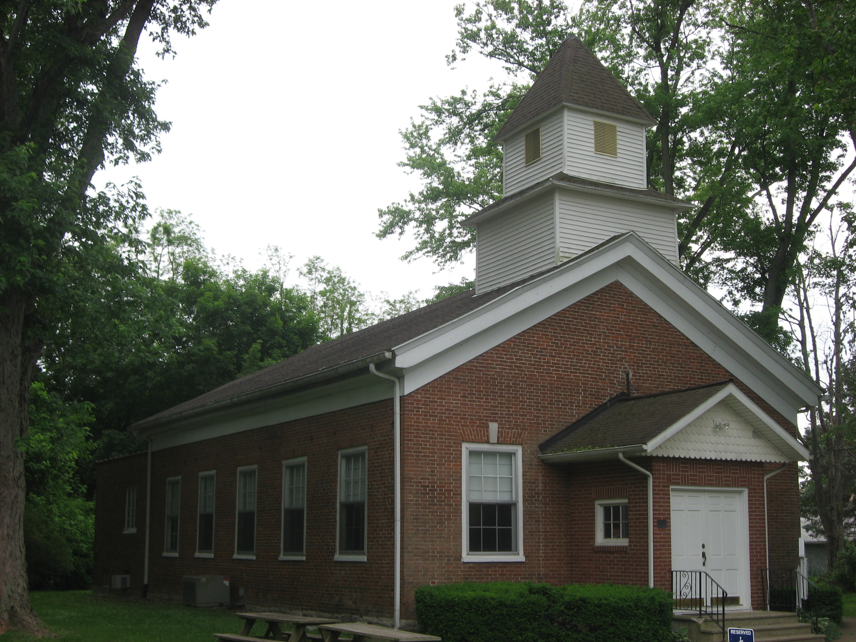 Front and eastern side of the former Putnamville Presbyterian Church (now the Putnamville United Methodist Church), located along U.S. Route 40 Putnamville, Indiana, United States. Built in 1834, it is listed on the National Register of Historic Places.